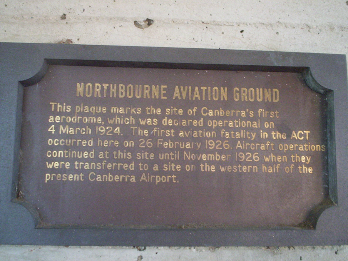 Category:Images of Canberra Small plaque on the side of the Dickson Library. I took the photo. The plaque reads: Northbourne Aviation Ground This plaque marks the site of Canberra's first aerodrome, which was declared operational on 4 March 1924. The first aviation fatality in the ACT occurred here on 26 February 1926. Aircraft operations continued at this site until November 1926 when they were transferred to a site on the western half of the present Canberra Airport.